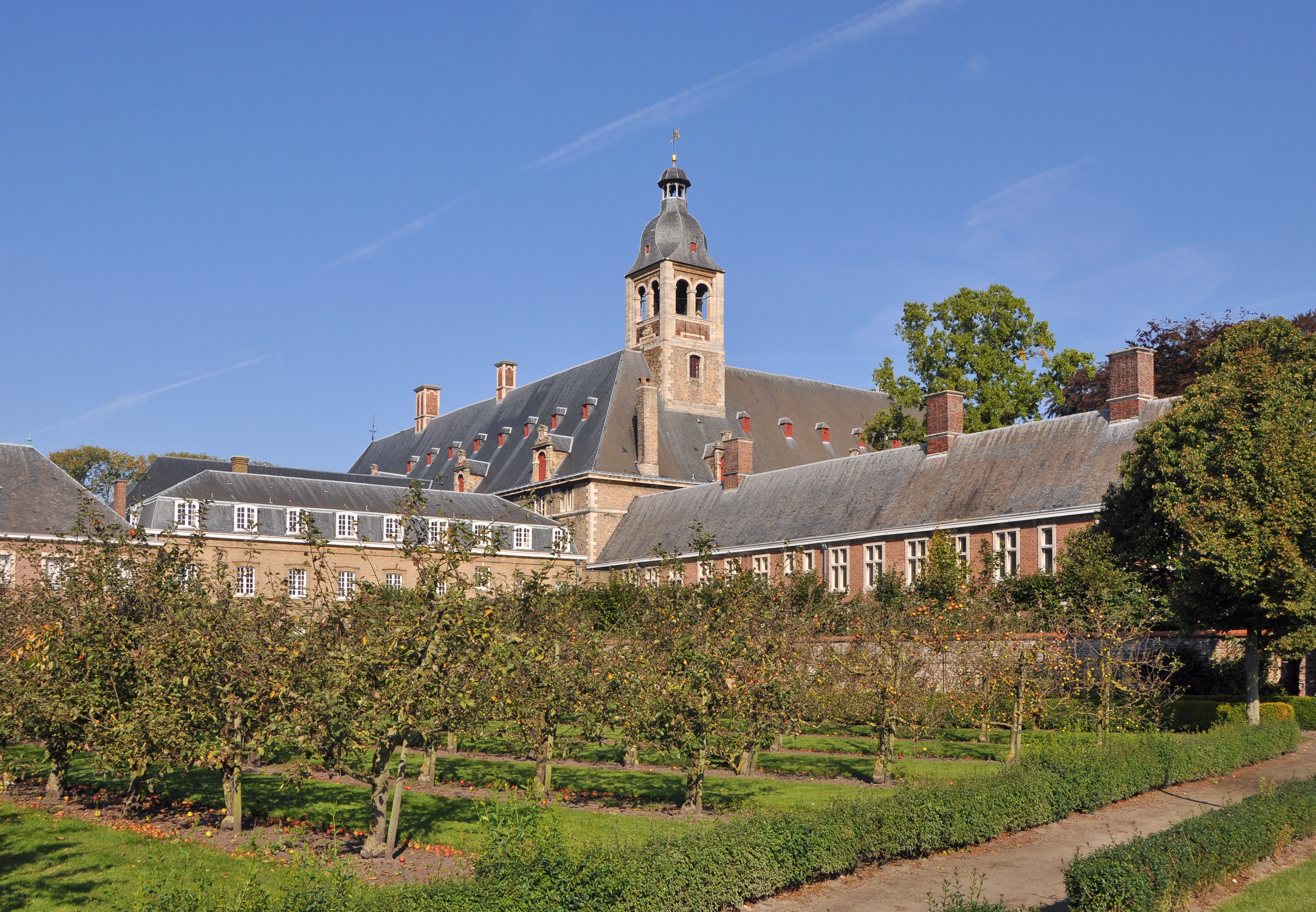 Bruges (Belgium): the Major Seminar, former Dunes Abbey